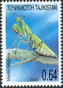 Stamps of Tajikistan